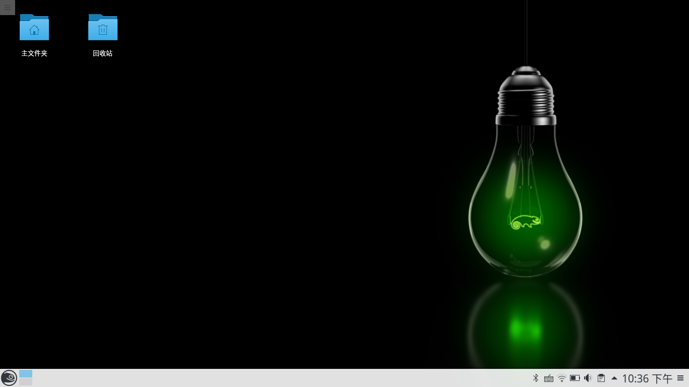 OpenSUSE Leap 42.3 Desktop with KDE 5.32.0